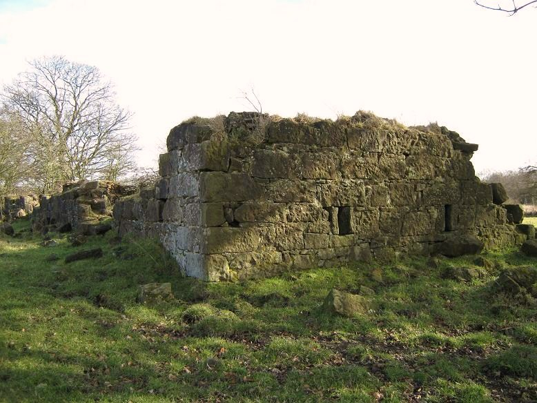 West Blairlinn Farm (ruin) This was a three compartment farm building which was vacated around fifty years ago - and has been left to crumble.